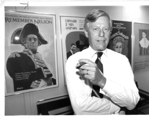 Photograph of Schmertz in his office, circa mid 1980s.